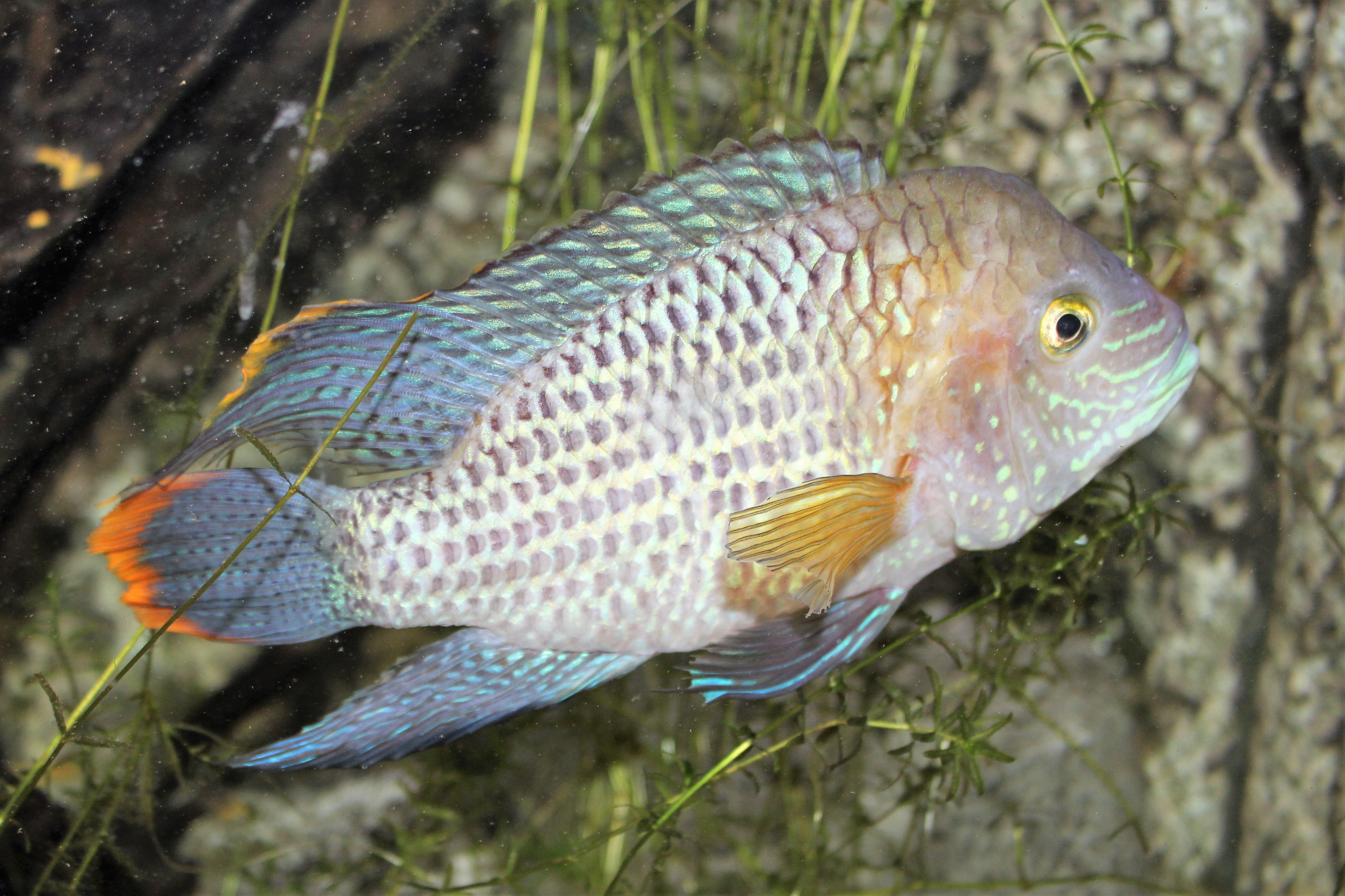 Andinoacara rivulatus in Nagyvárad Zoo, Transylvania.